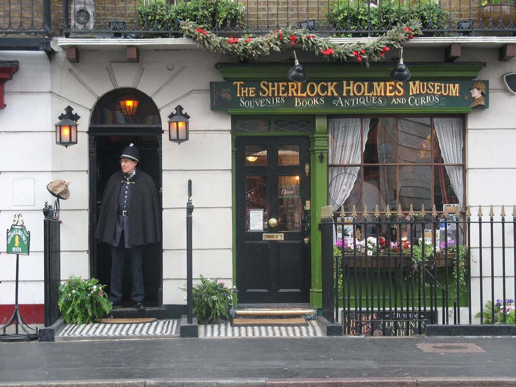 Sherlock Holmes Museum in London